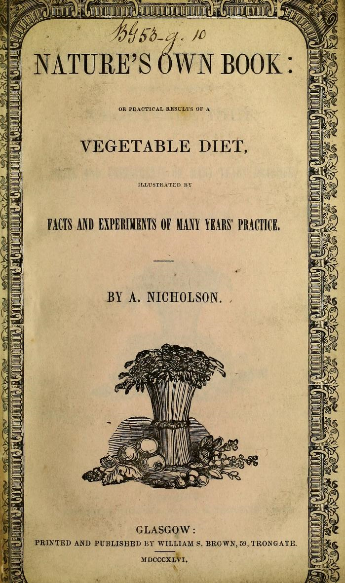 Front cover of Nature's Own Book, 1846 edition.